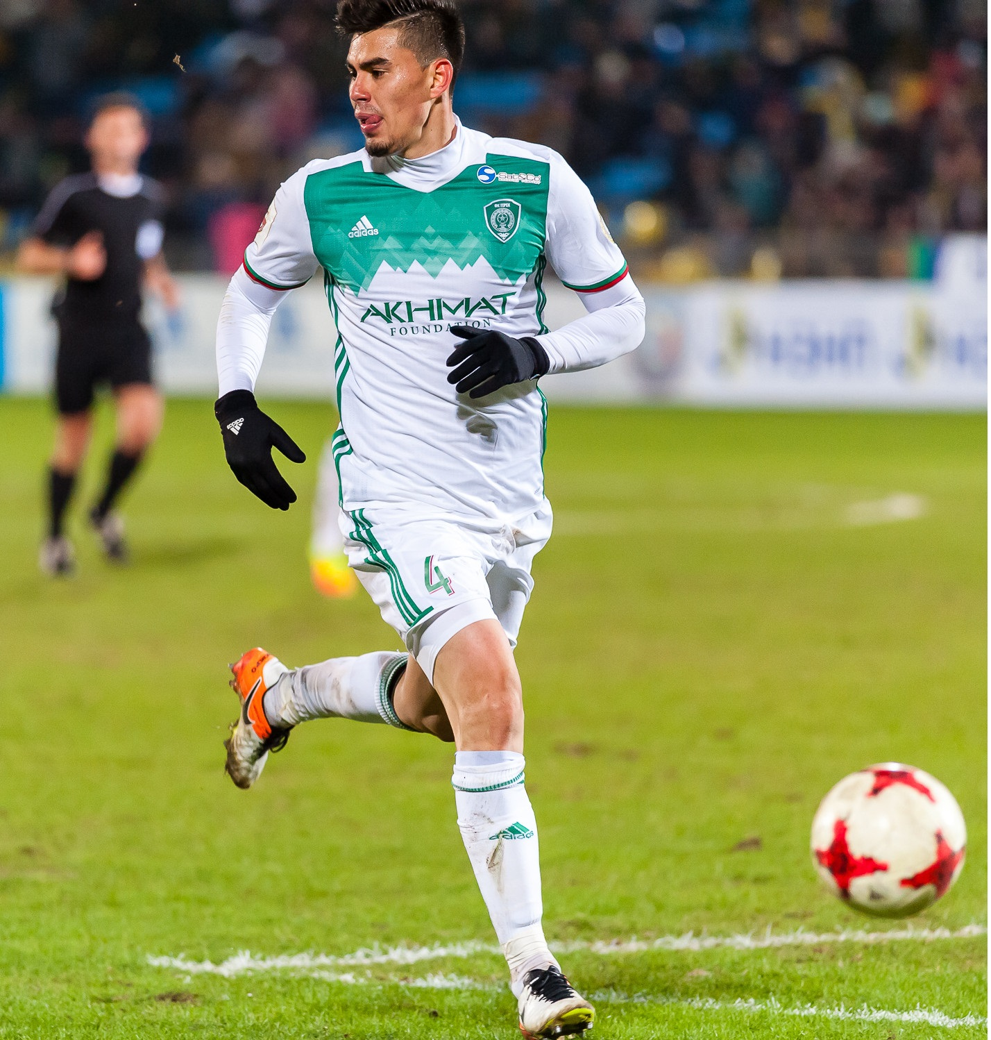 Wilker Ángel in game against FC Rostov